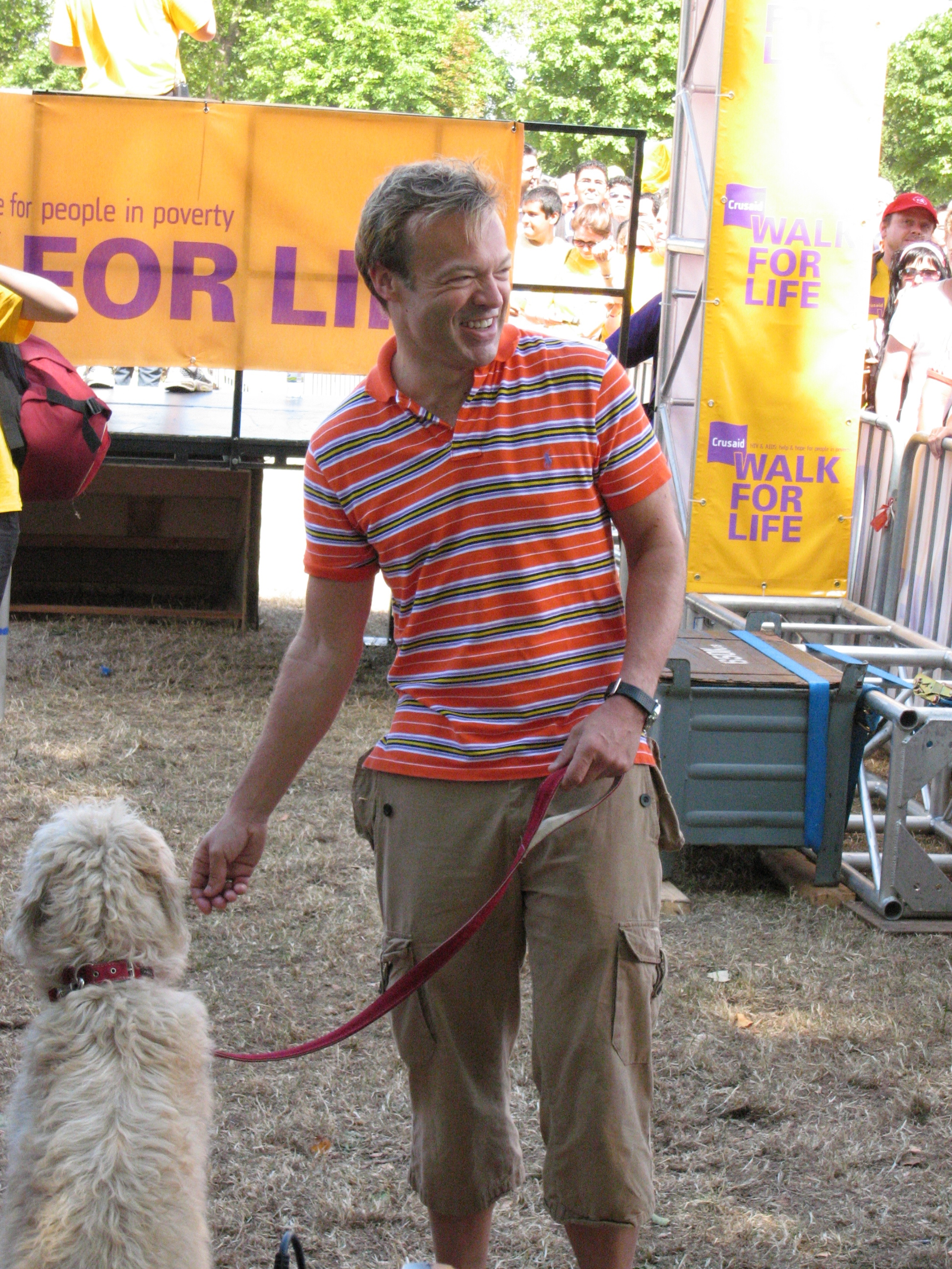 Graham Norton pictured with dog in 2006.